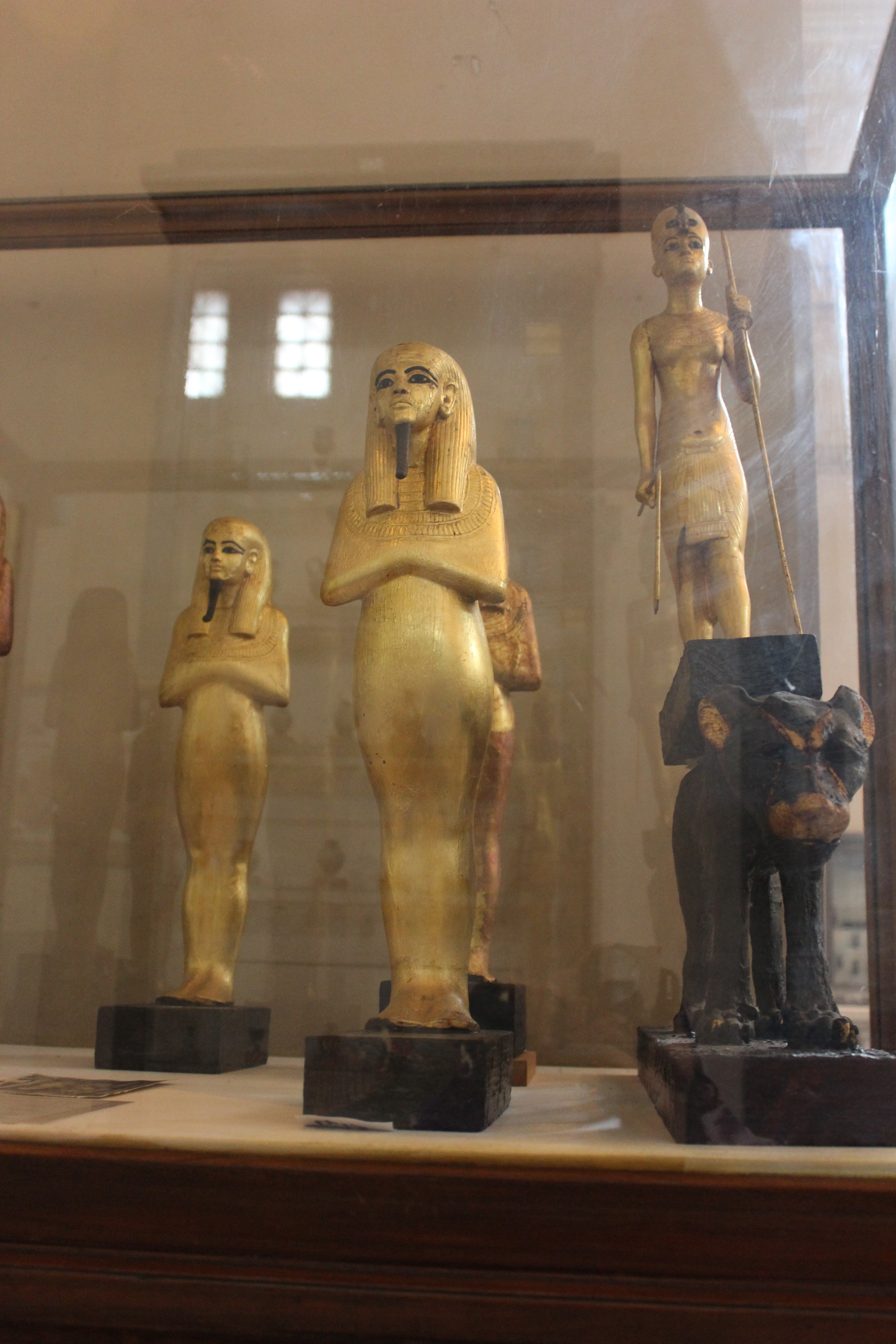 Egyptian Museum in Cairo, Egypt.)